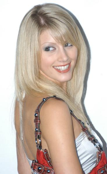 Lacie Heart at Digital Playground party for movie Island Fever 4, September 17 2006